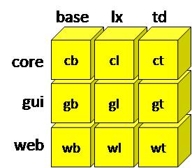 illustration of a program cube